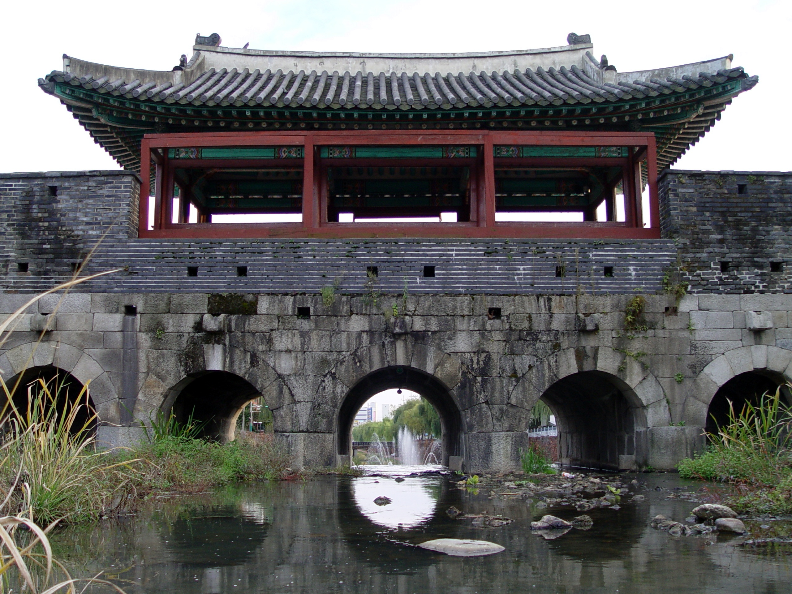 Suwoncheon and Hwahongmun, Hwaseong Fortress, Suwon, South Korea